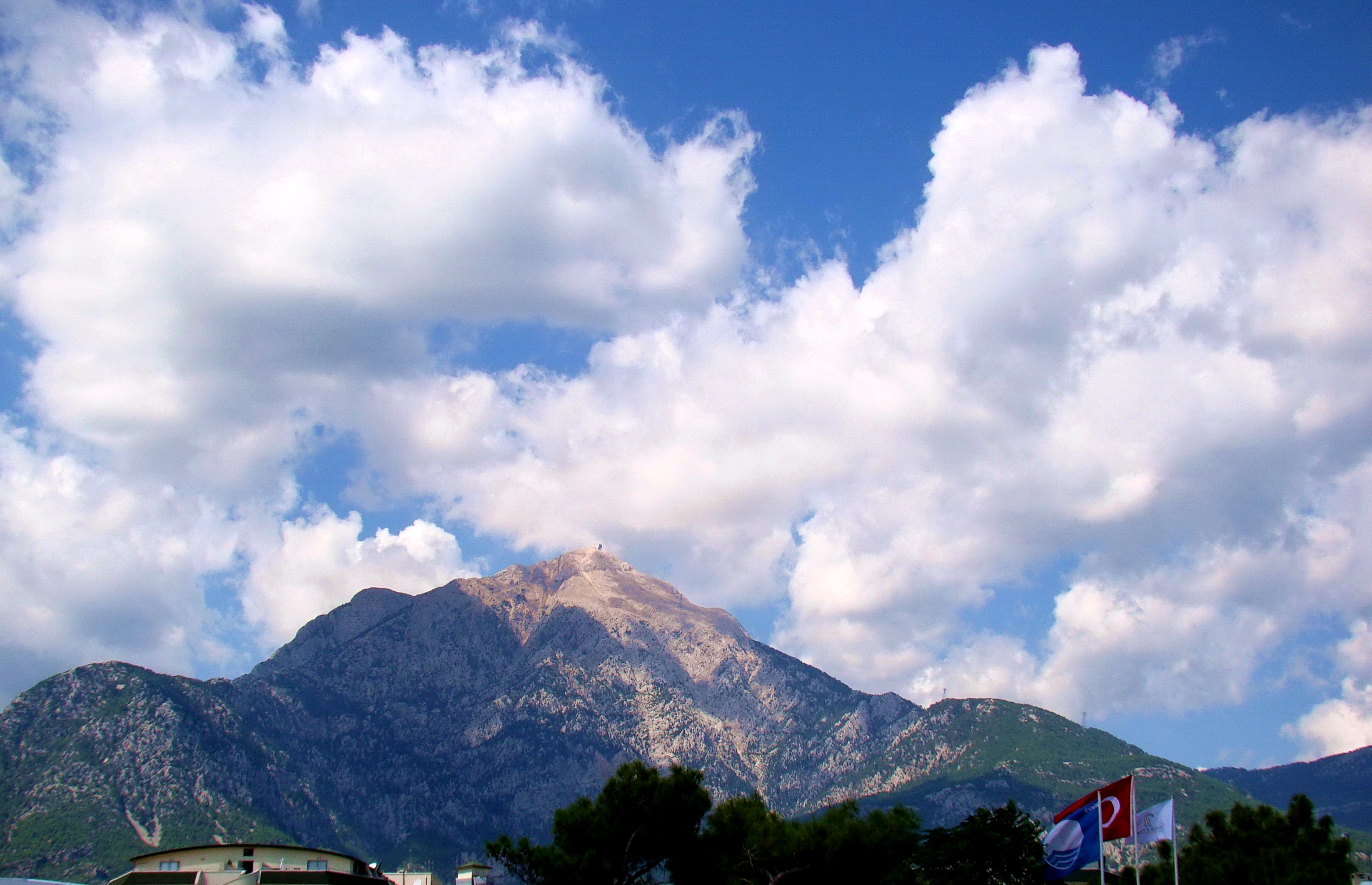 Нeight of the mountain 2365 meters above sea level. Гора Тахталы, Кемер, Турция